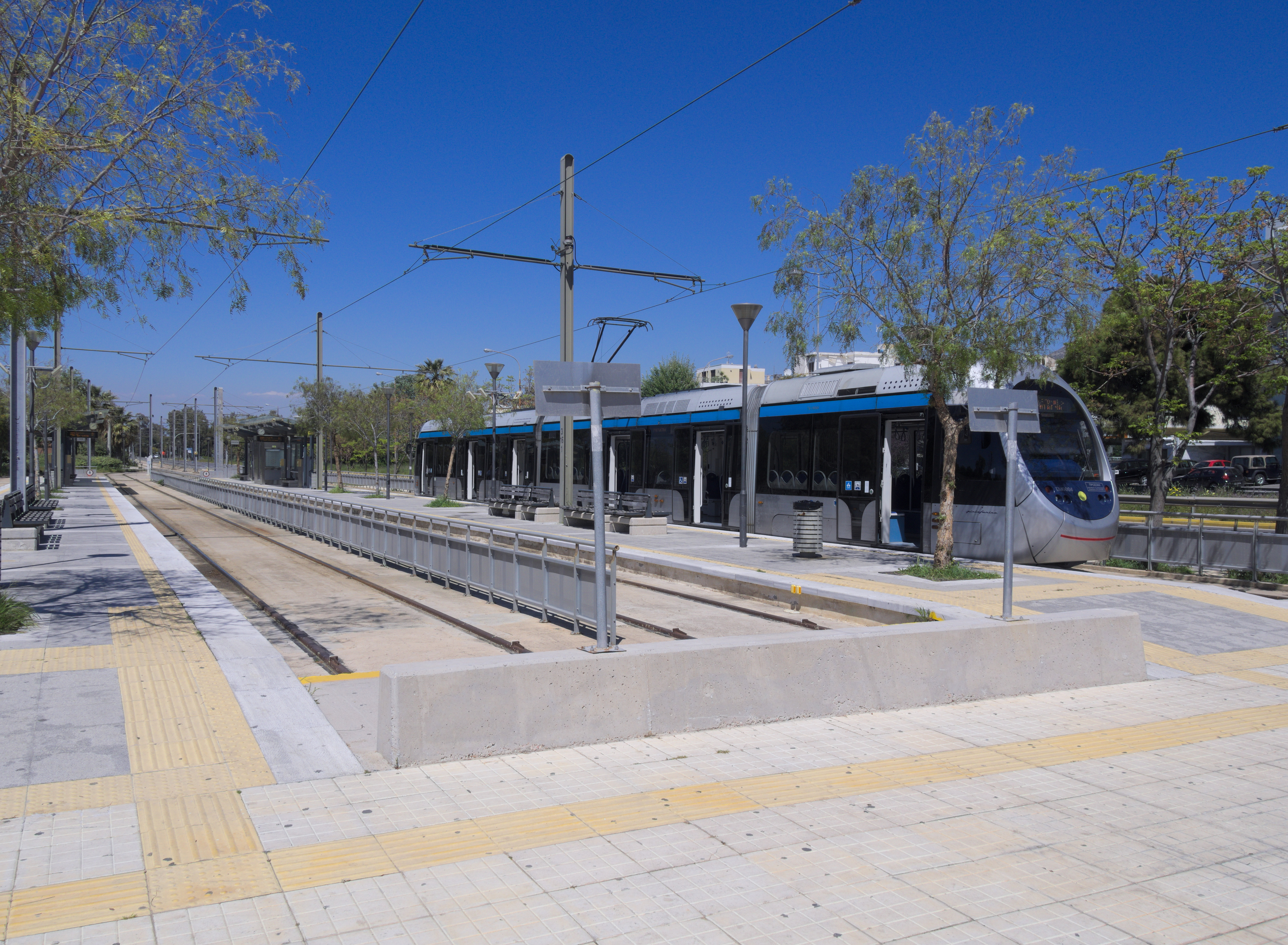 Voula tram station, the south terminal of trams in Athens.